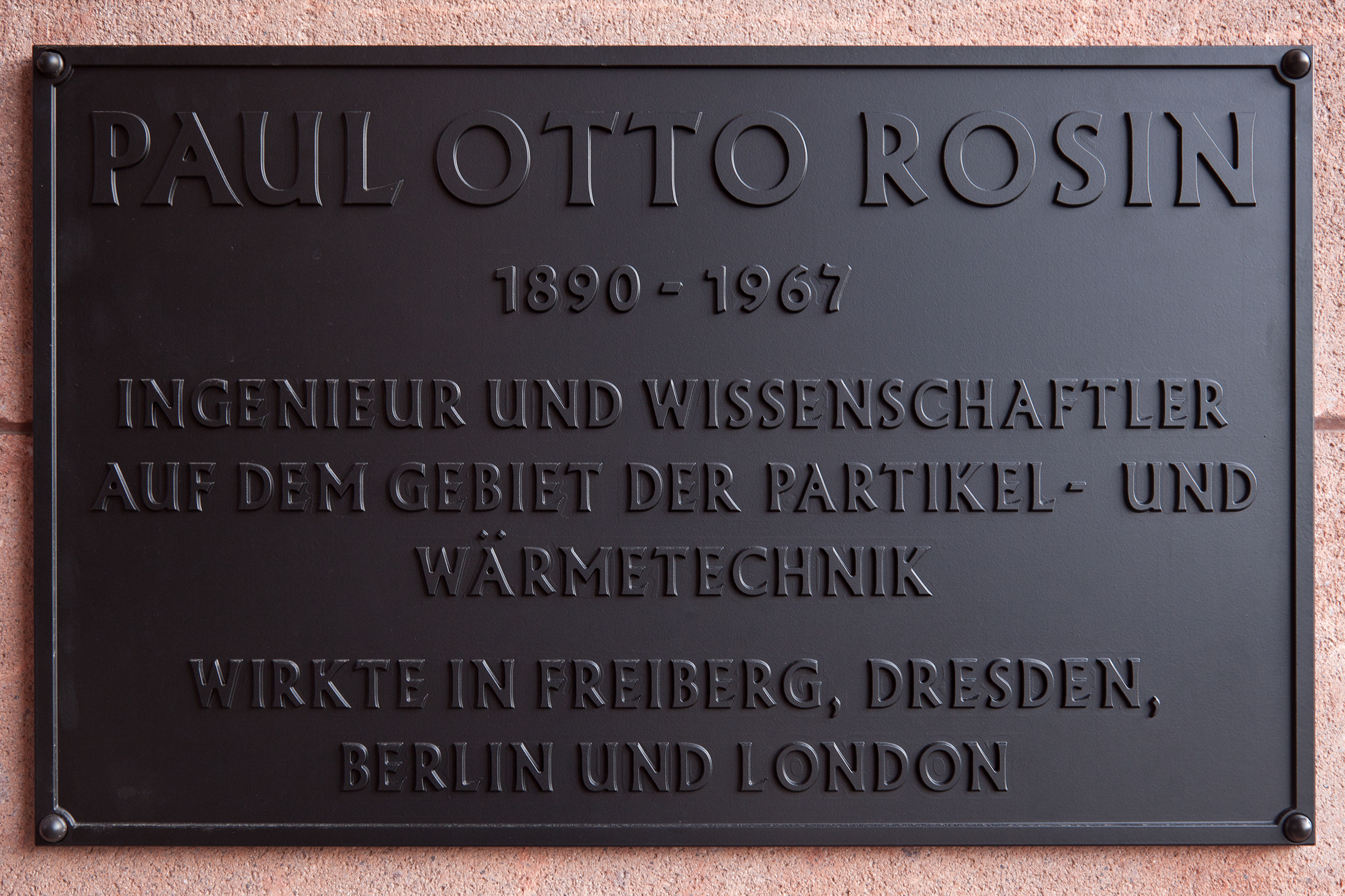 Paul Otto Rosin, memorial plaque in Freiberg